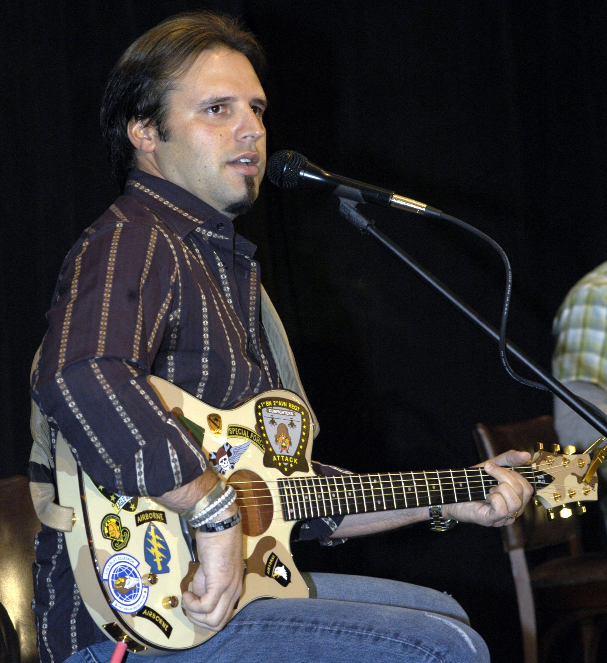 "Country singer Mark Wills performed some of his hit songs, including the megahit, "19 Something," for attendees at the Military Child Education Coalition conference in Atlanta on June 29. Photo by Rudi Williams "